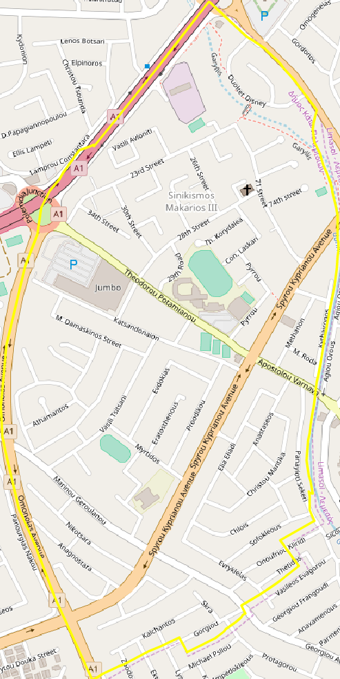 Map of Makarios C (Kato Polemidia).